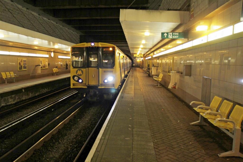 Merseyrail EMU 507001, Conway Park Station, Birkenhead